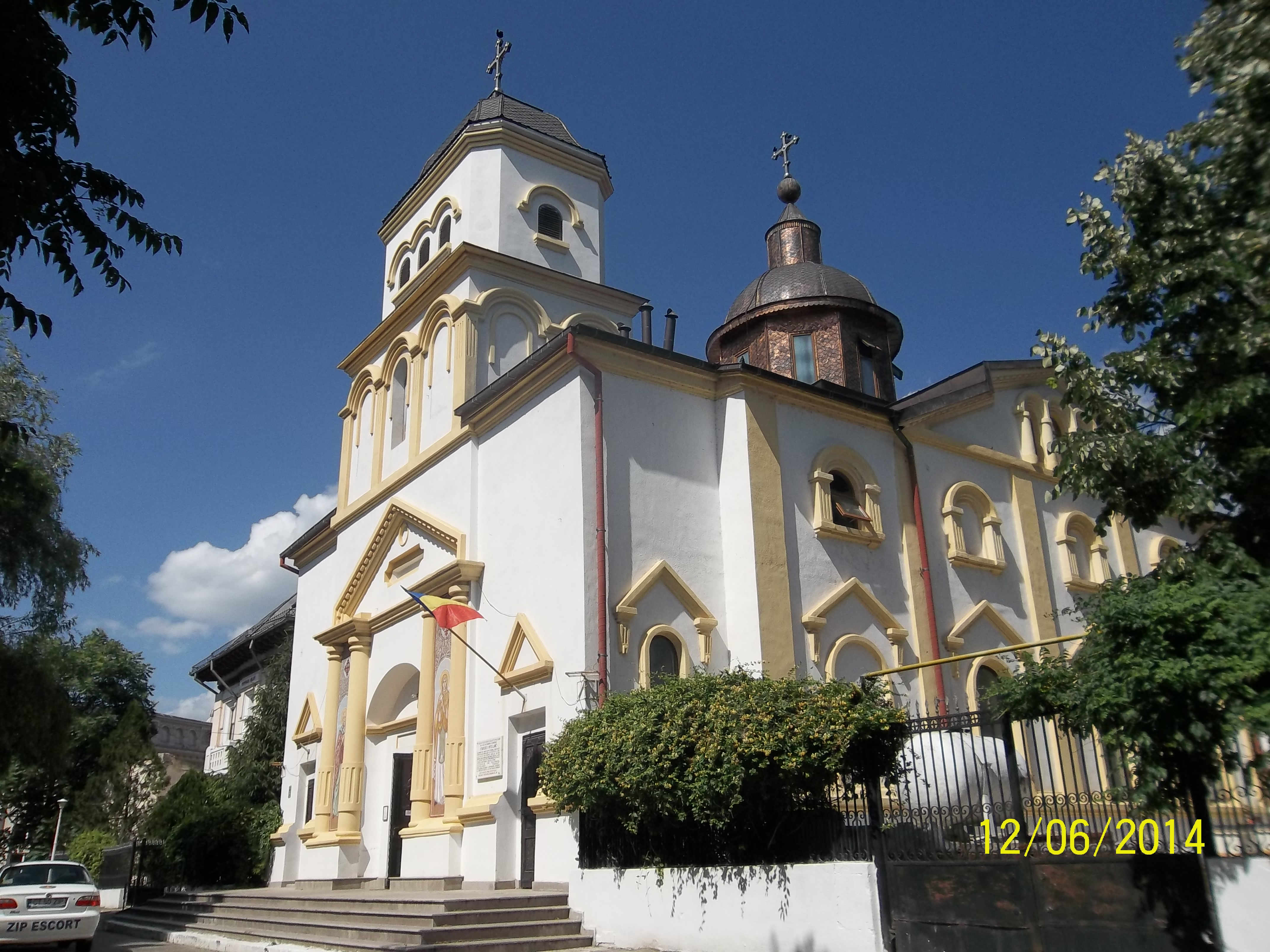 "Saint Nicolas" Orthodox Church Galati, Galatz, Romania